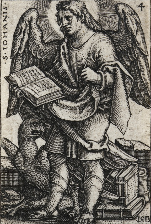 Engraving of Saint John the Evangelist. Part of a series (The Four Evangelists, pl. 4).